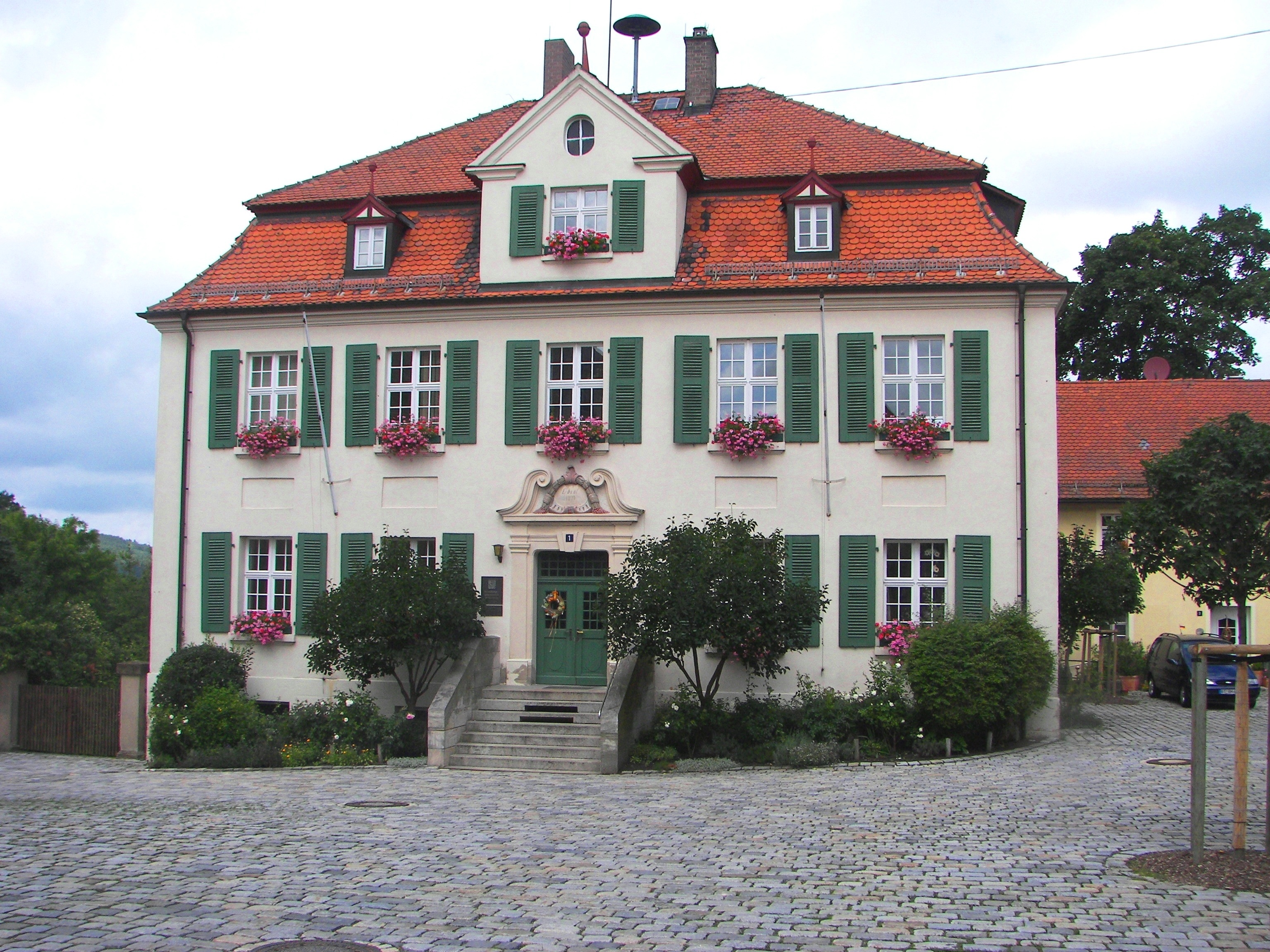 Townhall of Weidenberg